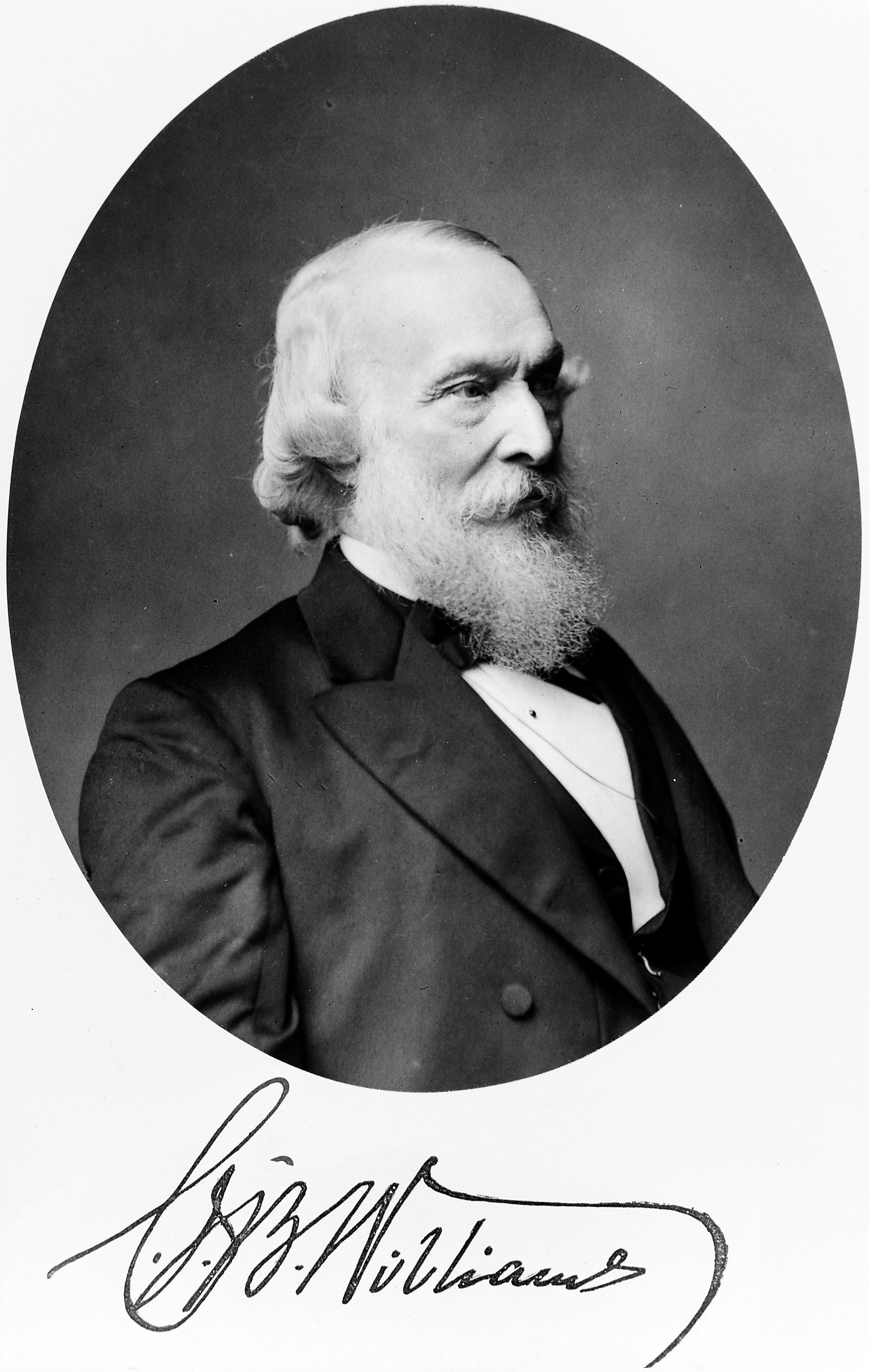 Photograph of Charles James Blasius Williams (1805–1889), English physician.